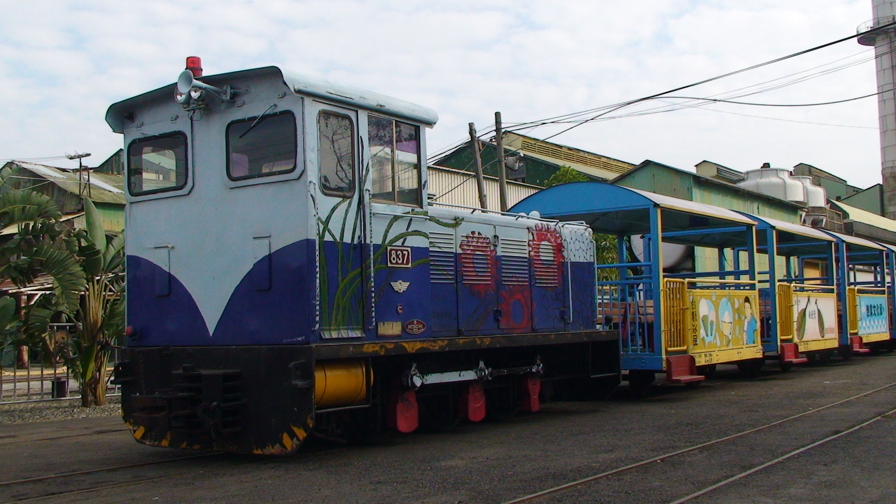 Sihu Sugar Refiney Diesel Locomotive No.837